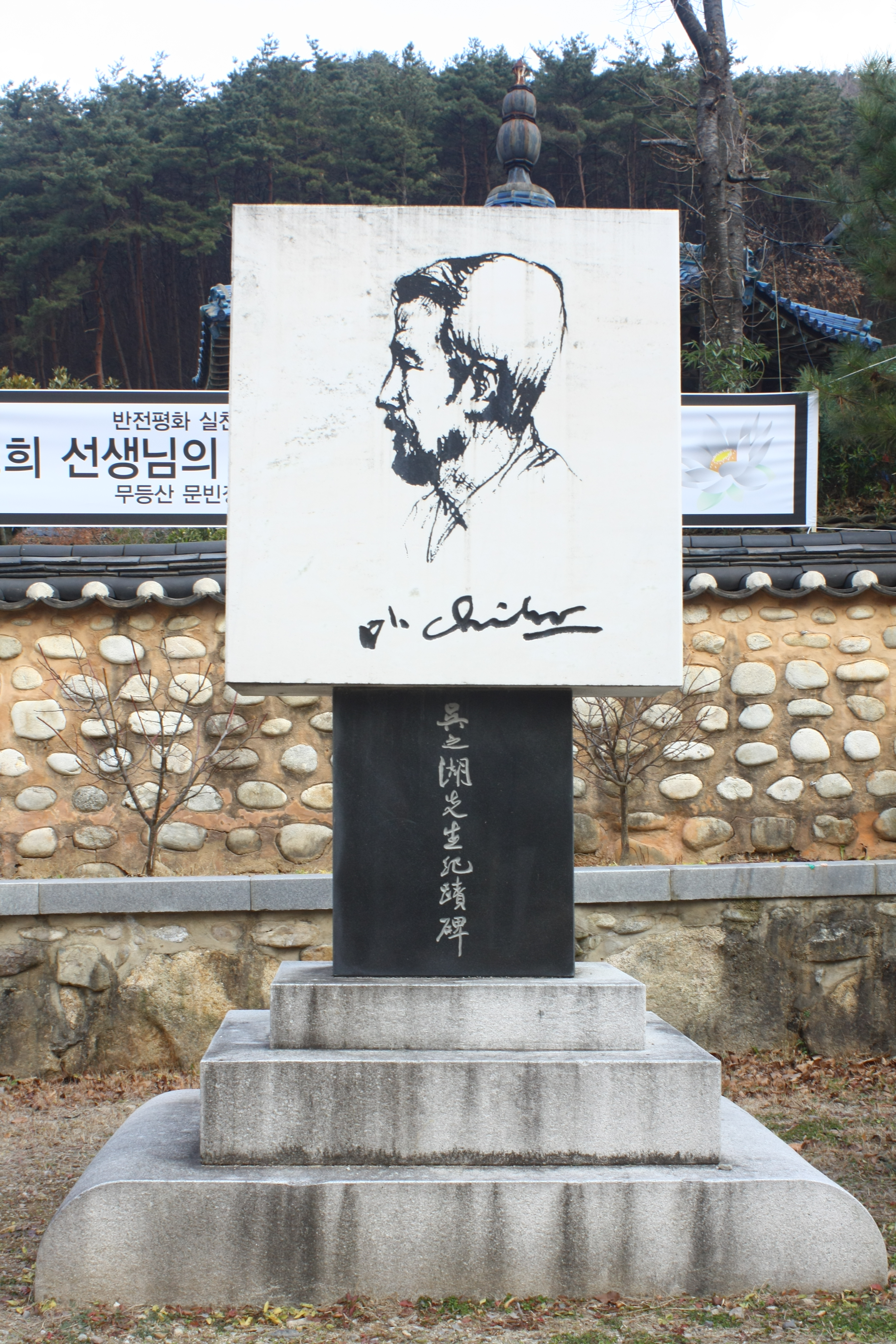 The monument of O Jiho in Gwangju, Korea